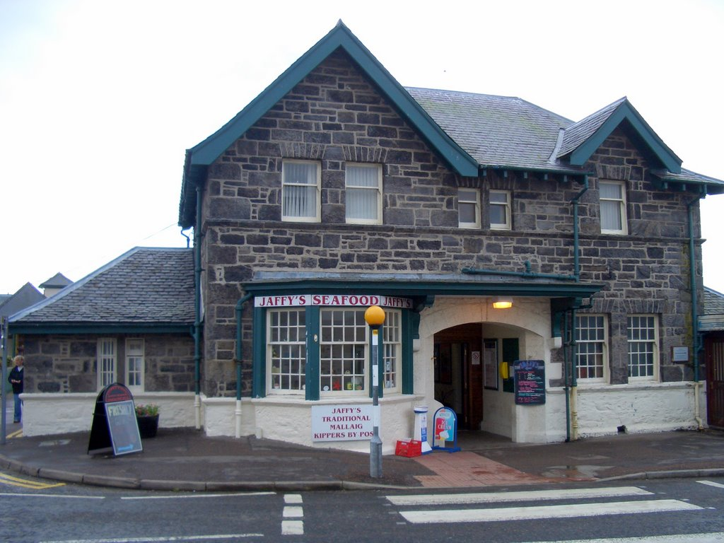 Mallaig Train Station